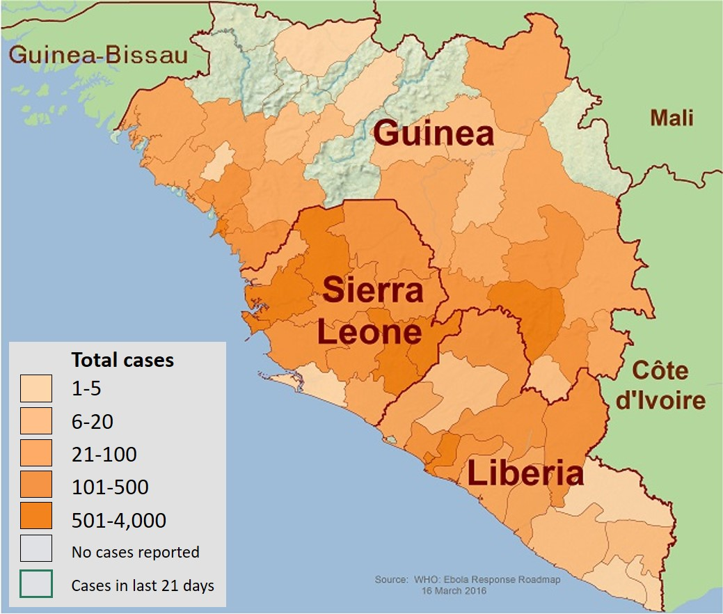 This is a map of the distribution of the Ebola virus epidemic in Guinea, Liberia, and Sierra Leone as of 17 December 2014.